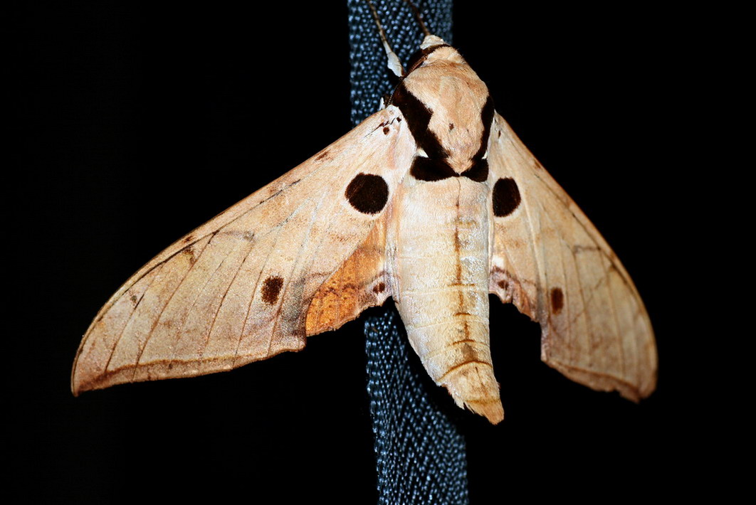 Malaysia, Fraser's Hill. March, 2009